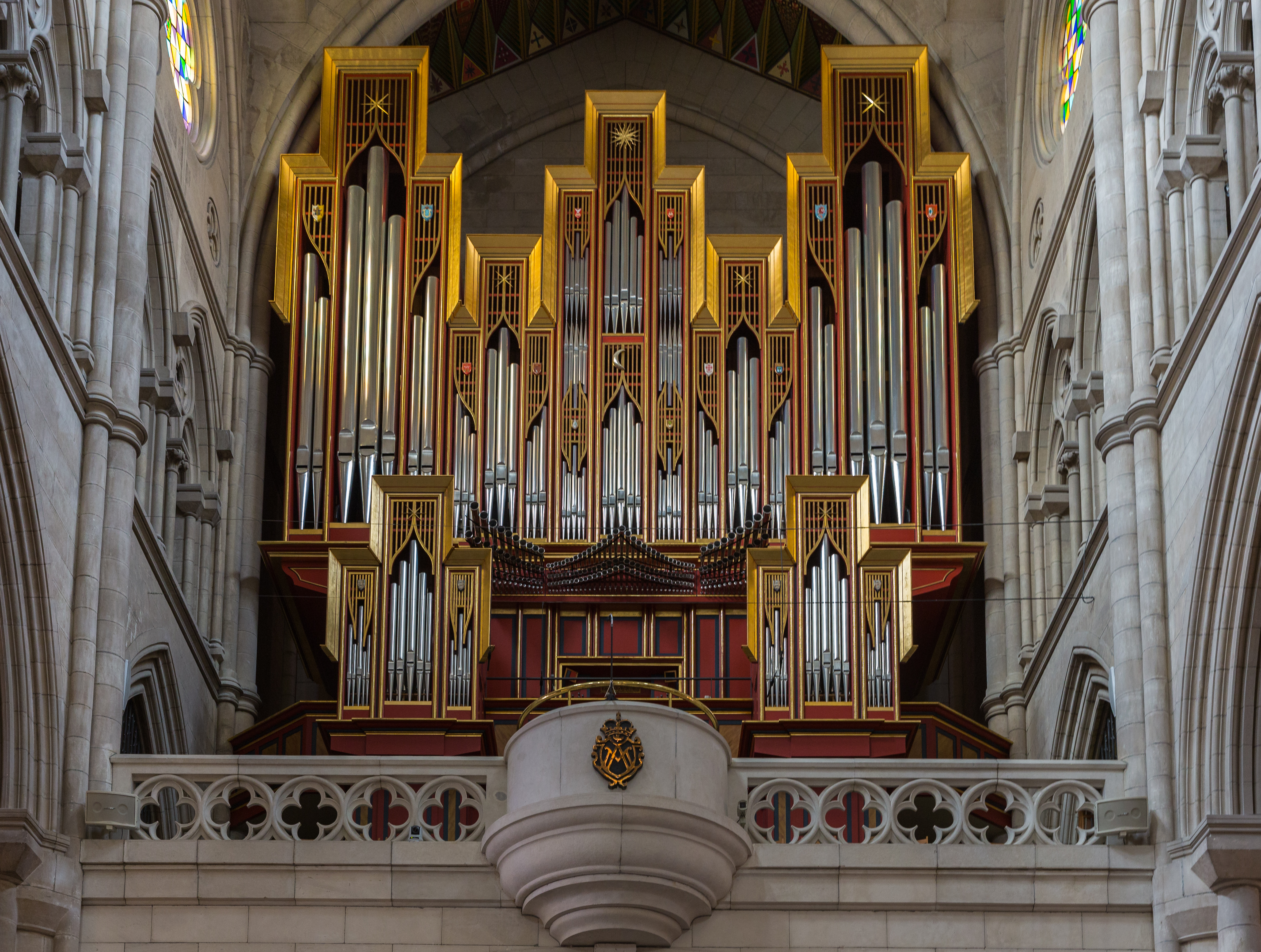 Almudena Cathedral, Madrid, Spain